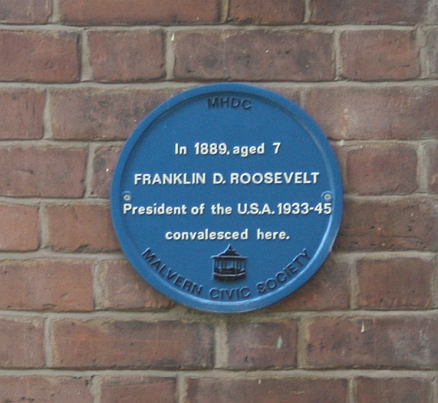 Roosevelt plaque on Aldwyn Tower, St. Ann's Road. On Aldwyn Tower 1428360 The blue plaque, erected by the Malvern Civic Society reads: In 1889, aged 7 Franklin D. Roosevelt President of the U.S.A 1933-45 convalesced here.